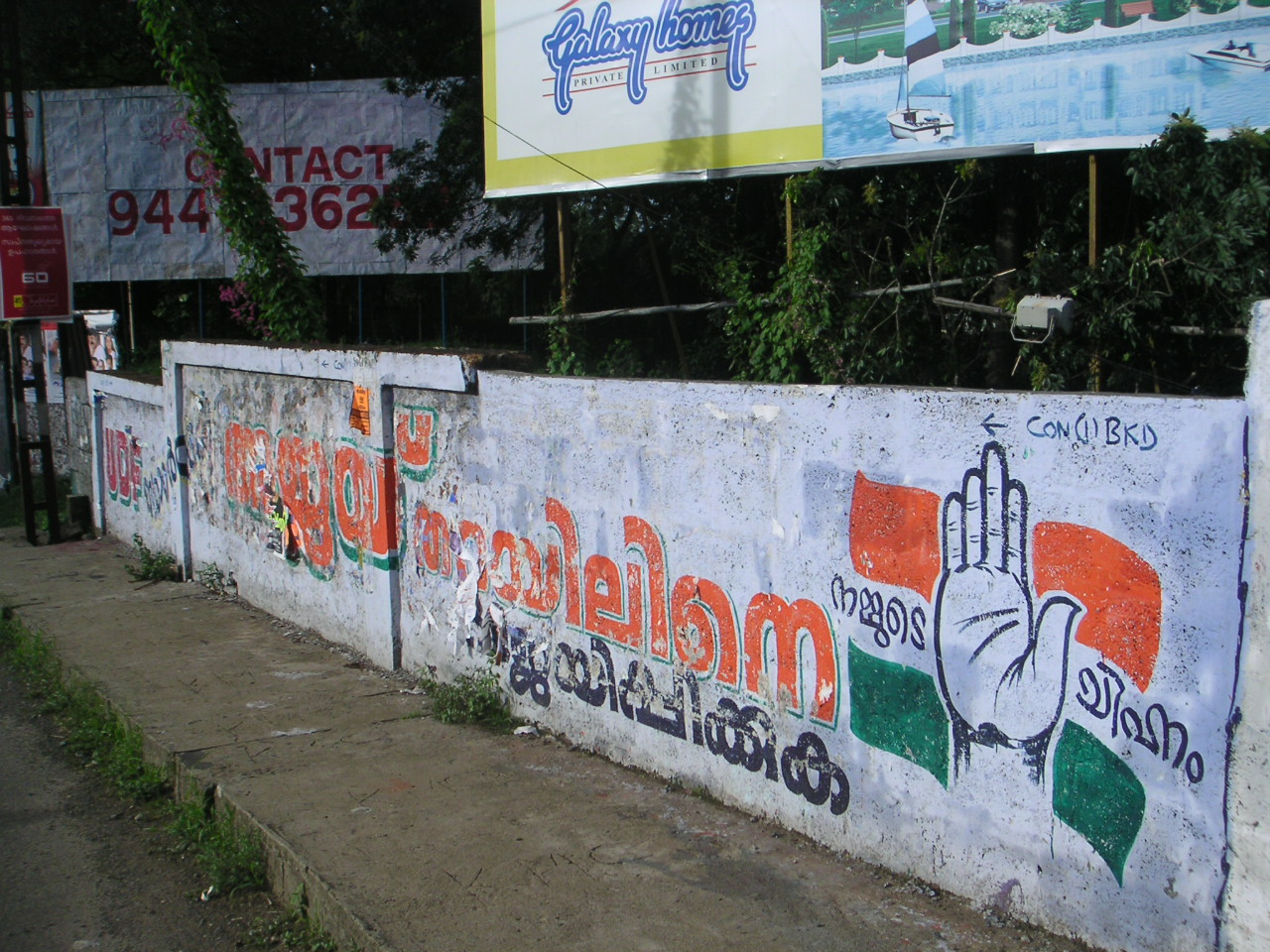 Photo: Soman